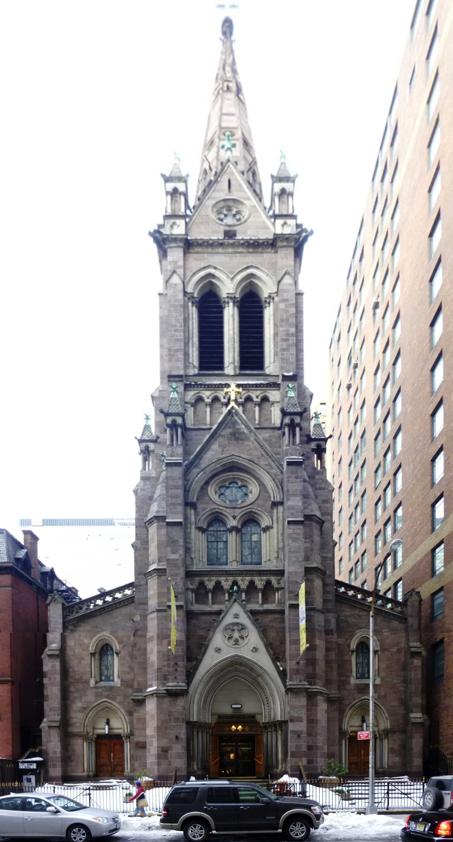 The Church of St. John the Baptist is a Roman Catholic parish church in the Roman Catholic Archdiocese of New York, located at 207 West 30th Street at Seventh Avenue, in Midtown Manhattan, New York City. It was established in 1840 and is staffed by the Capuchin Friars. The Gothic Revival church was built between 1871-1872 to the designs of Napoleon Le Brun.